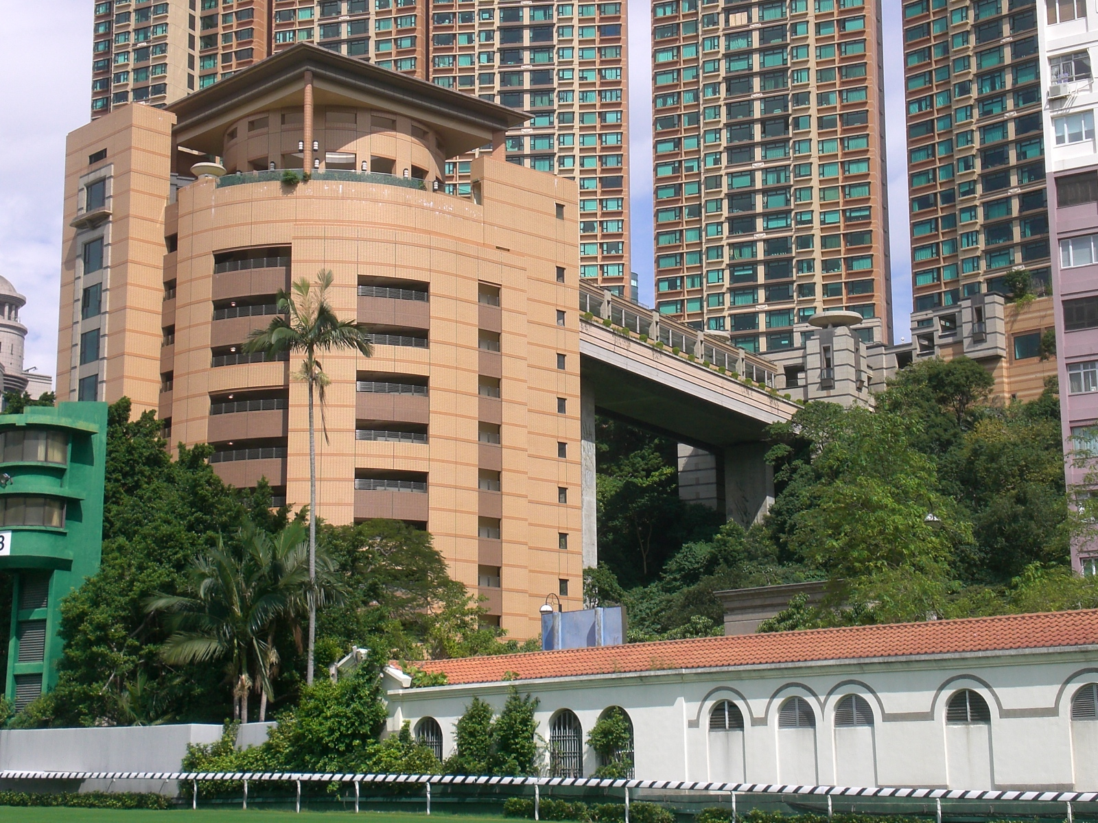 跑馬地黃泥涌道zh:禮頓山 (住宅)及周邊景觀